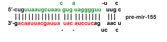 pre-mir-155